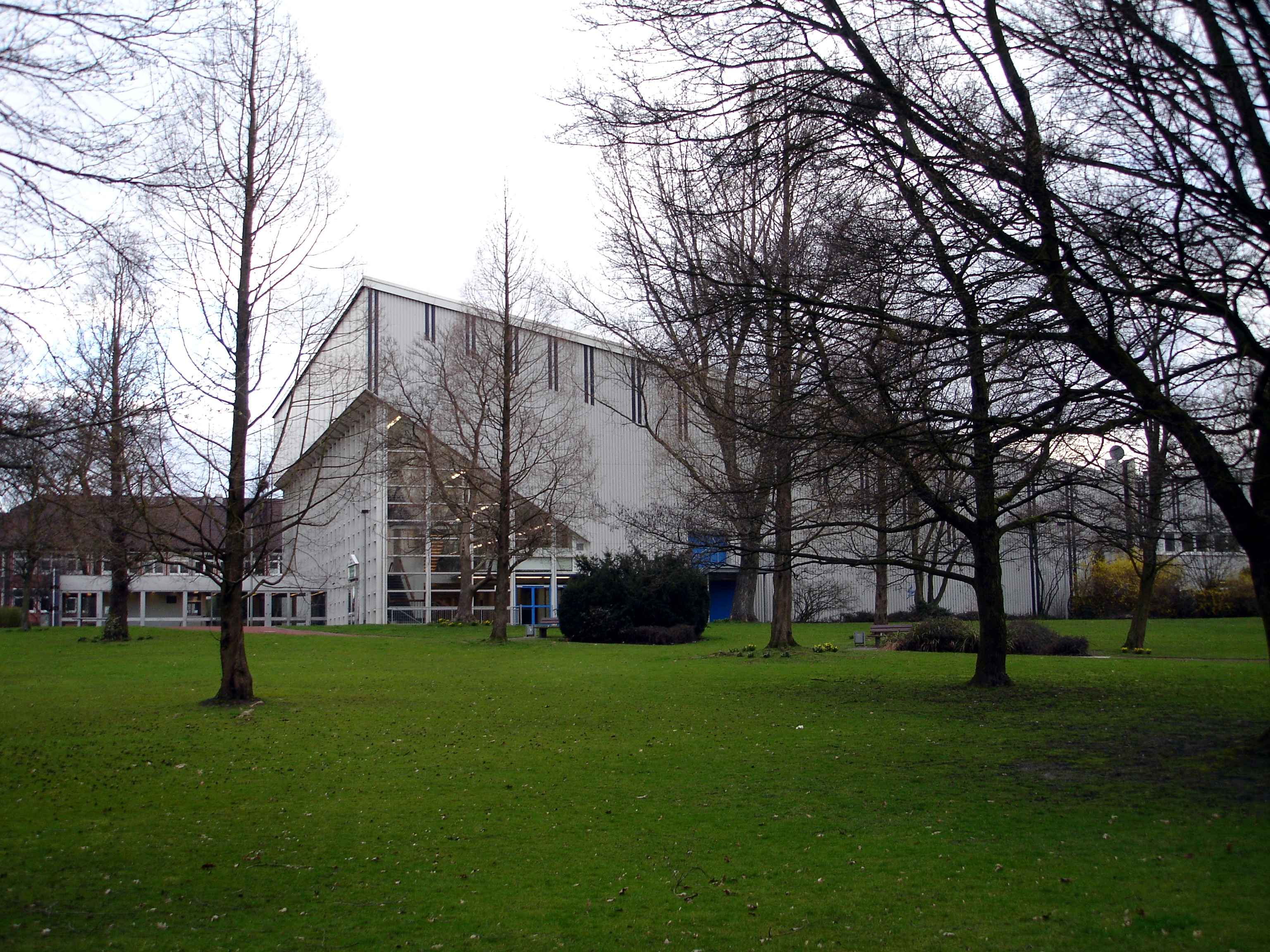 Sports arena in the park, called "Sportpark", in Wanne-Eickel. Black Sabbath played here December, 18th 1970. Today this arena is used for sport events.